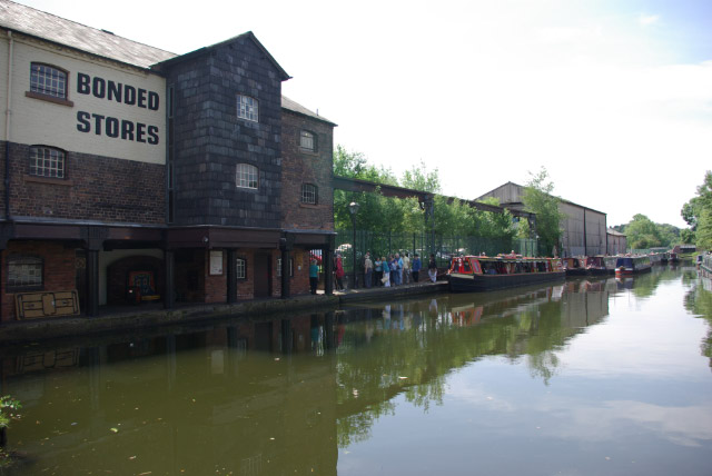 Stourbridge Canal, Stourbridge The Stourbridge Canal terminates at this former warehouse in the centre of Stourbridge. The grade 2 listed warehouse was built in 1779 and enlarged in the 1840s. Today it acts as a venue for a wide range of functions.